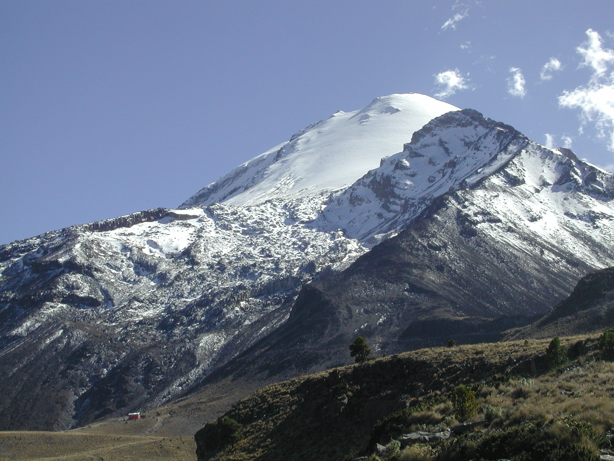 Third highest peak in the Northern Hemisphere